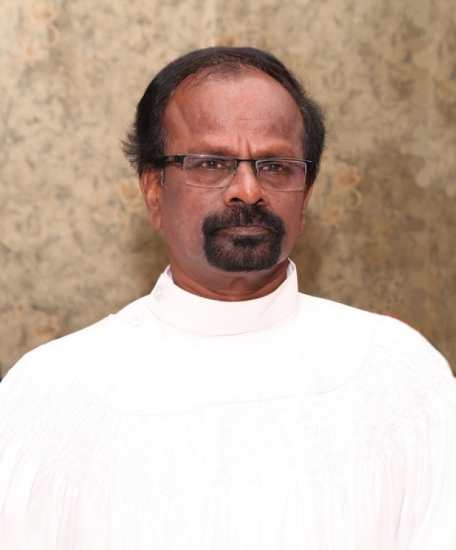 consecration day